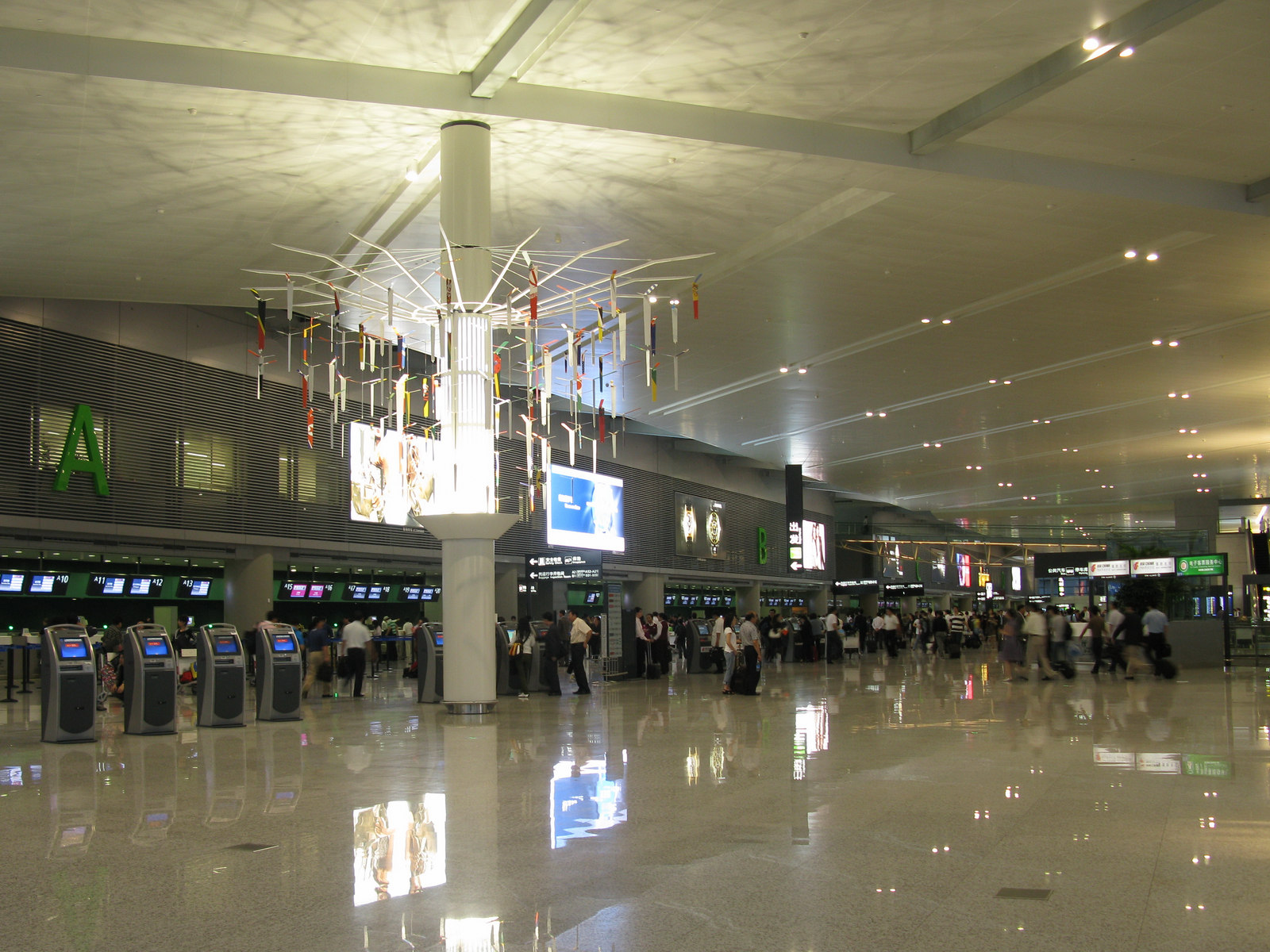 Check-in Hall of Shanghai Hongqiao International Airport Terminal 2